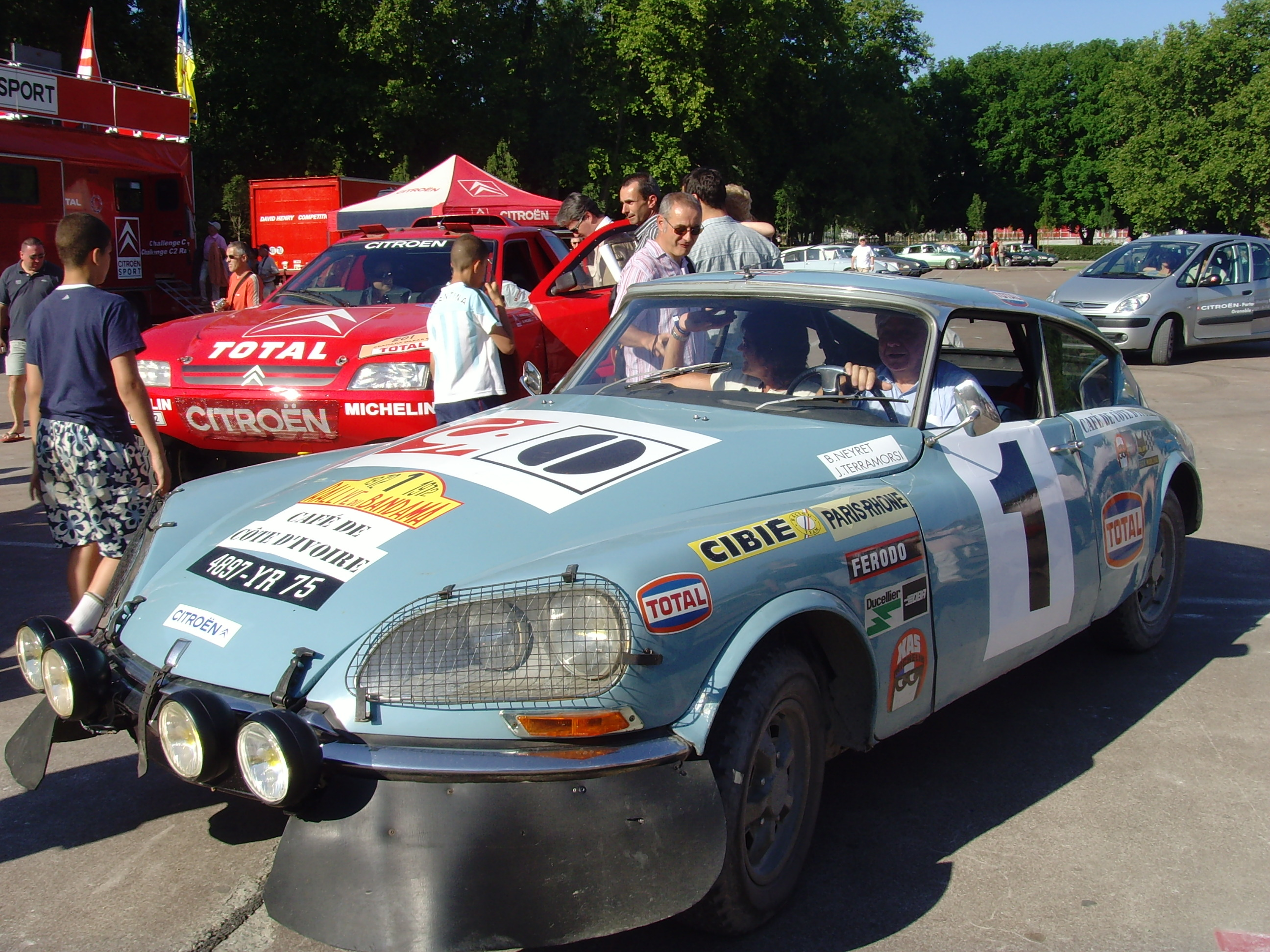 Citroen DS Rallye Prototype and Citroen ZX Paris-Dakar Rallye Car at the Citroen Sport Classique Meeting 2007 at Grenoble. More Citroen Sport Classique Images